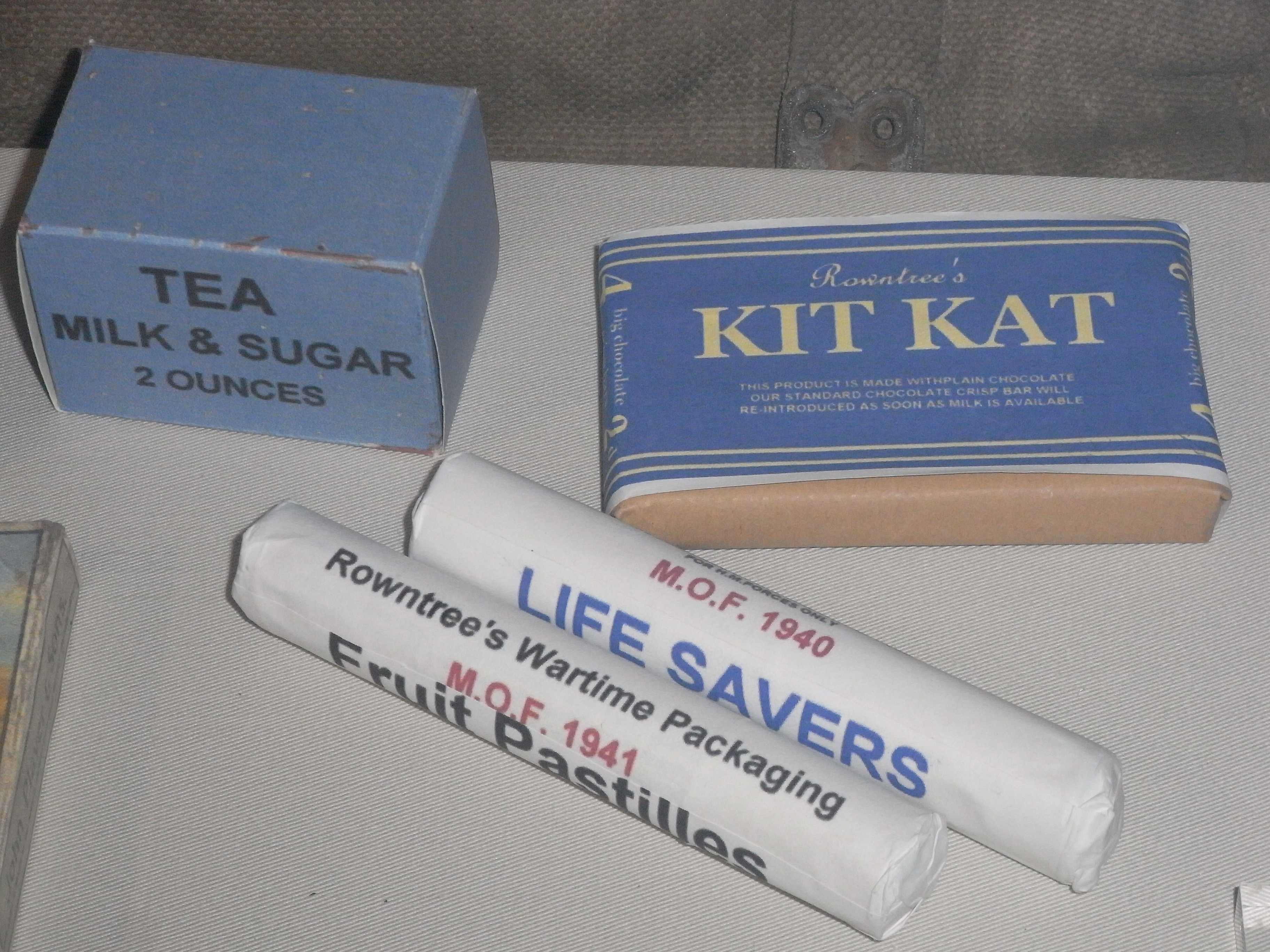 British foods in 1940s, exhibit - Hong Kong Museum of Coastal Defence, HKMCD, Shau Kei Wan, Hong Kong